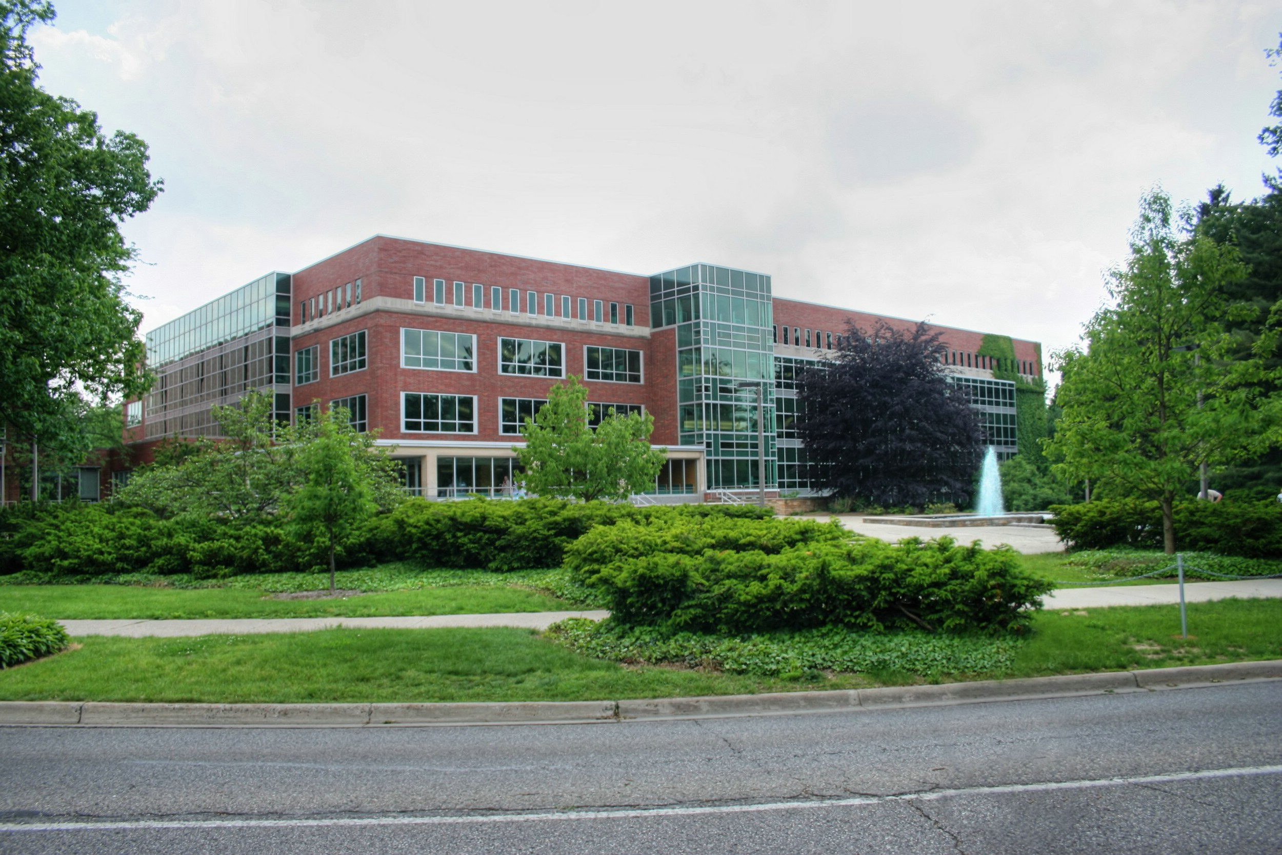 A photograph of the Main Library on the Michigan State University campus in East Lansing, Michigan. This photograph is one of a series taken for Wikipedia by the submitter on May 28th, 2006 between the hours of 3pm and 6pm.